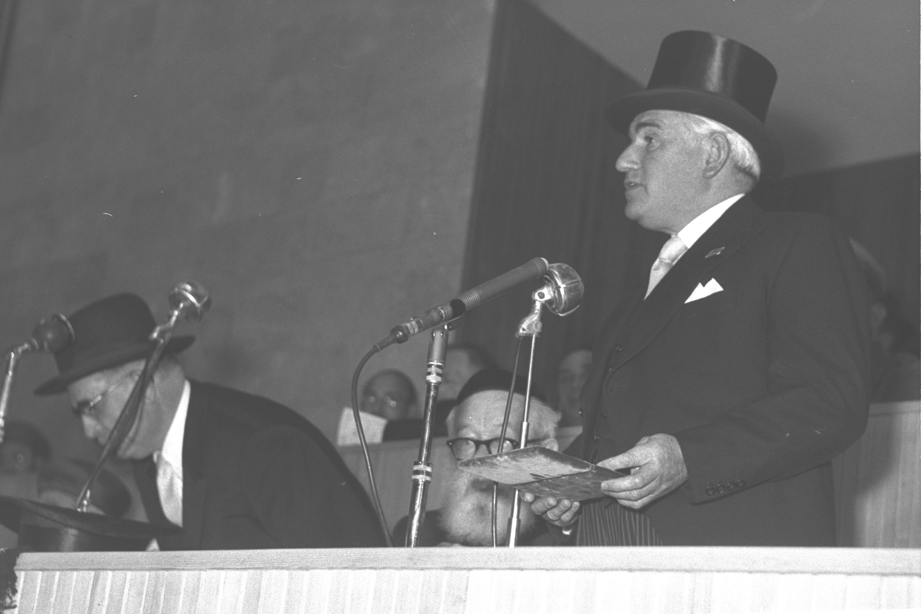 Isaac Wolfson speaking at the dedication of "Heichal Shlomo" building in Jerusalem, 1958.